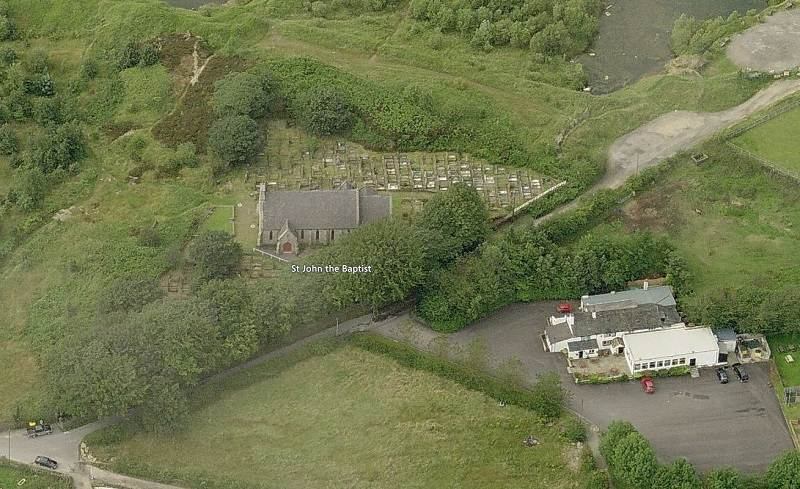 Bircle Church from above